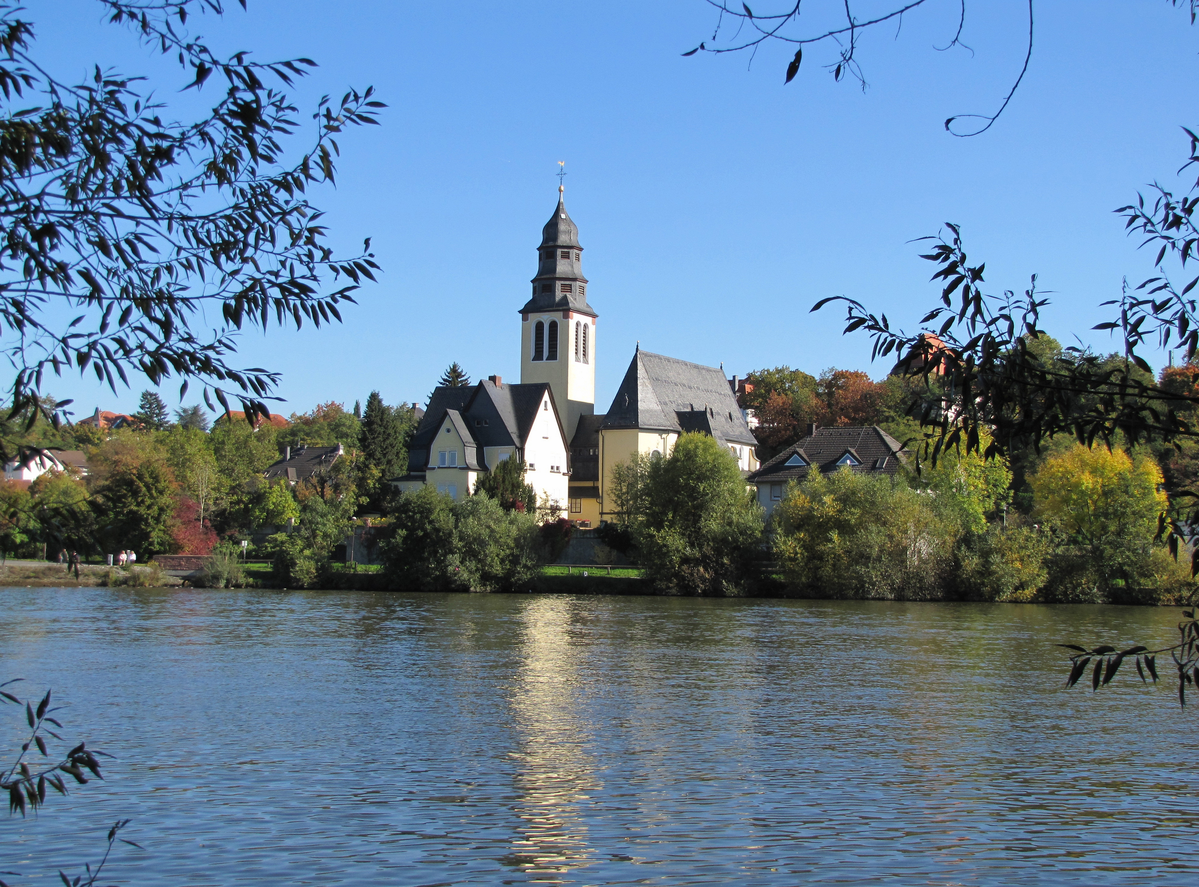 "Herz Jesu Kirche", Kelsterbach am Main, Hesse, Germany.